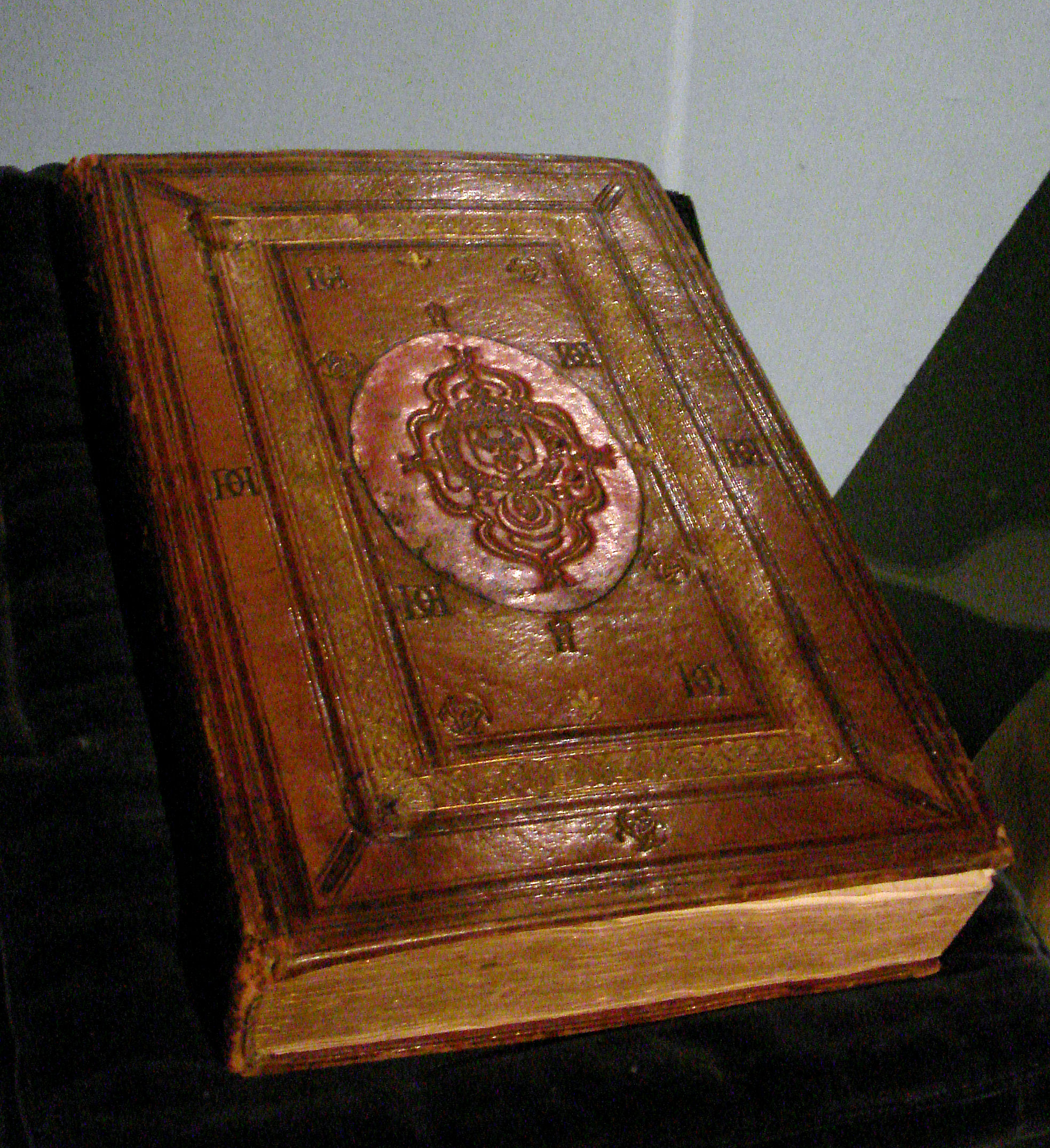 Ottoman_Empire_Coran_copied_circa_1536_bounded_circa_1549_with_arms_of_Henri_II_according_to_regulations_set_under_Francis_I.